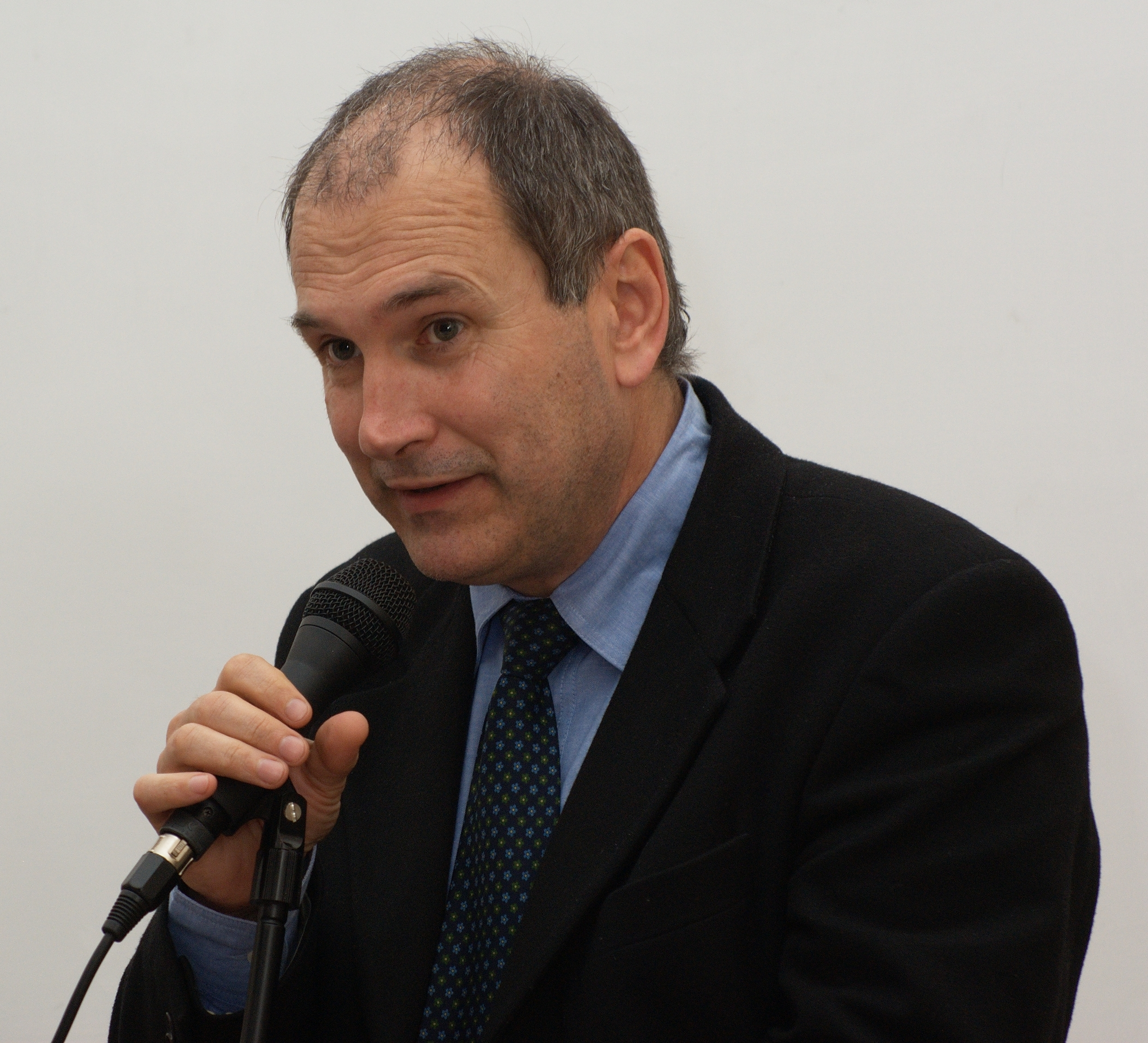 The National Secretary of the Communist Refoundation Party Hon. Paolo Ferrero during a meeting in Imperia.